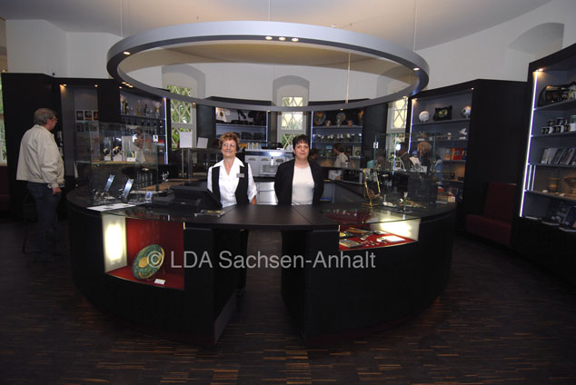 Museum shop of Landesmuseum für Vorgeschichte Sachsen-Anhalt in Halle, Germany